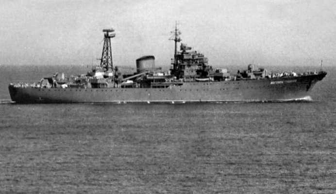 A Soviet Project 310-class submarine tender (NATO reporting code: Don-class), probably Magomed Gadzhiev, in the Mediterranean Sea, in 1967. The photo was taken from the U.S. Navy guided missile cruiser USS Galveston (CLG-3).